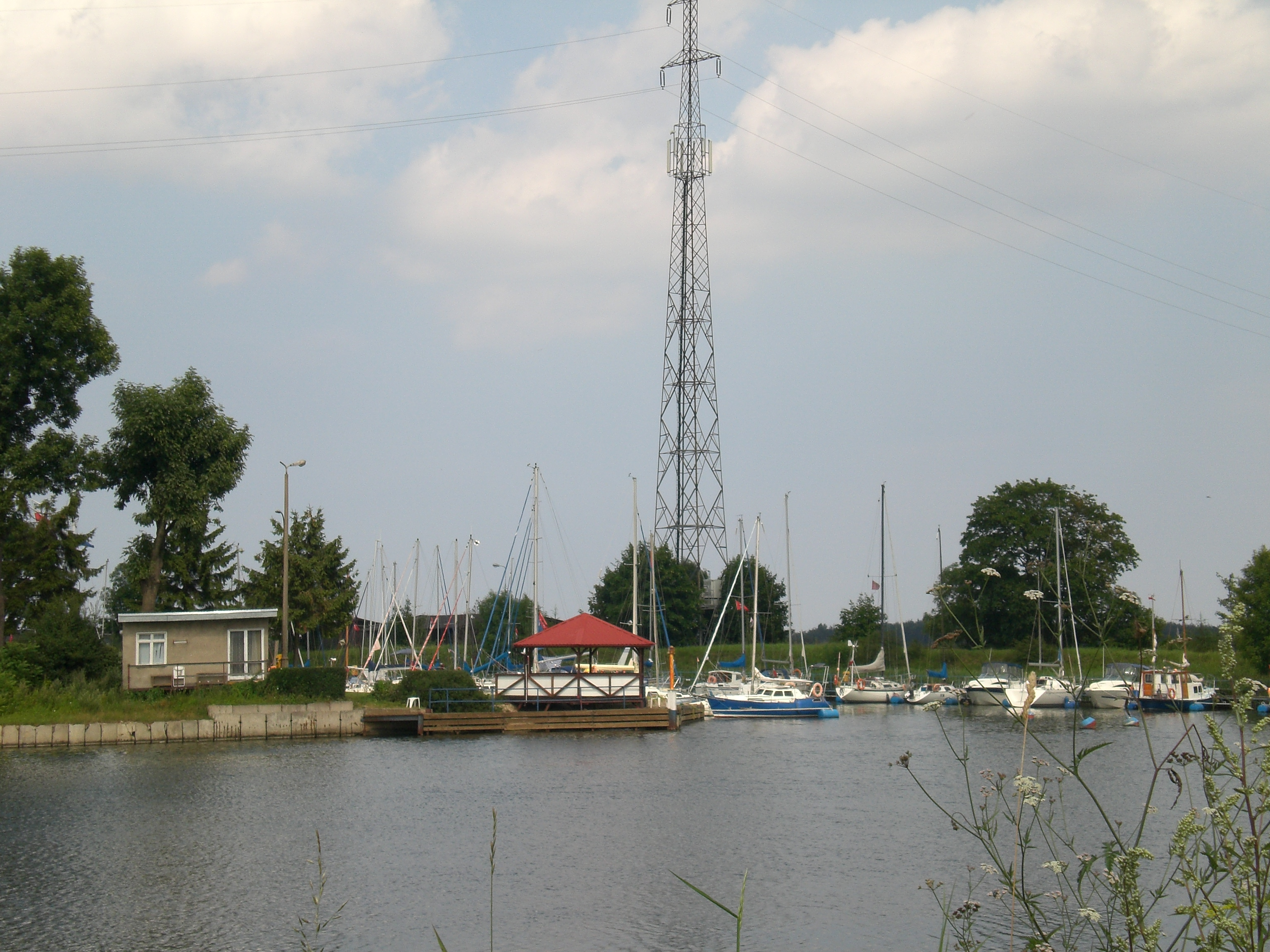 Gdańsk Górki Zachodnie